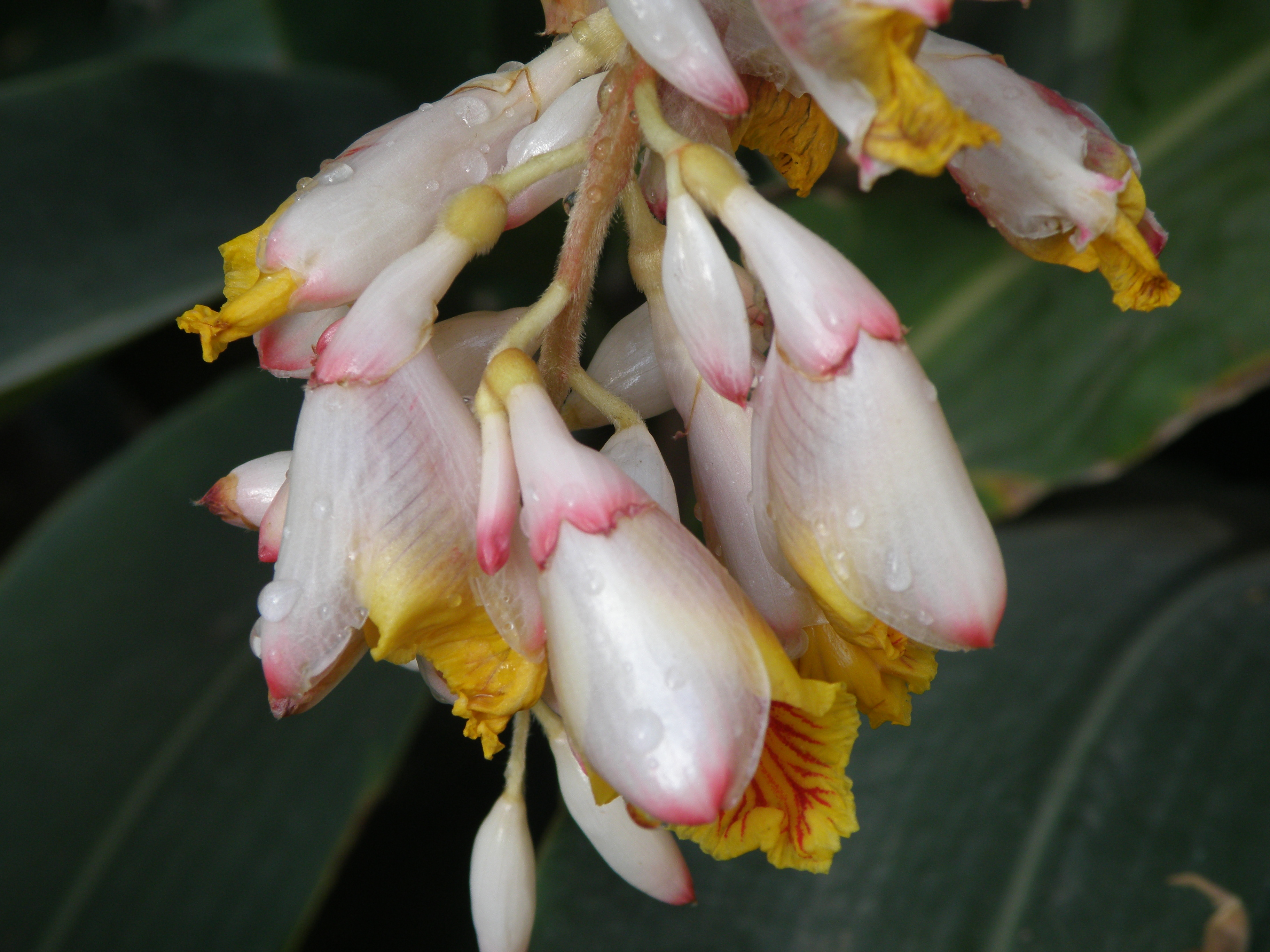 Bunch of Cardamom (Elaichi) Flowers growing in North India